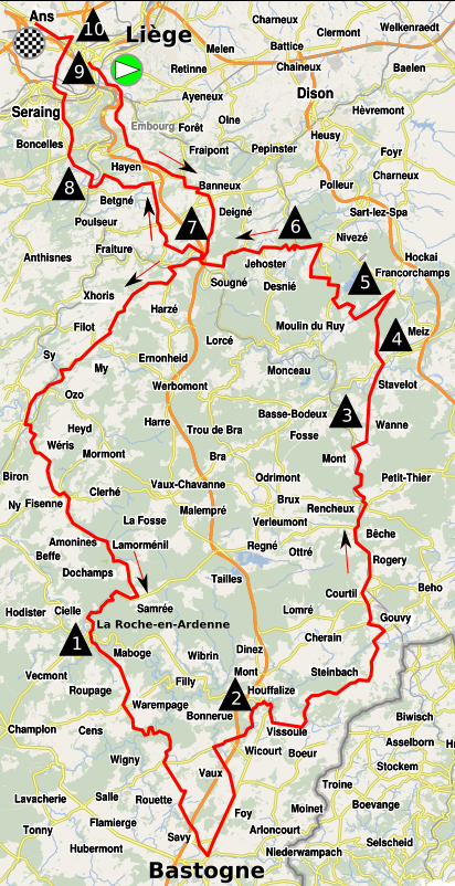 Map of Liège-Bastogne-Liège 2016